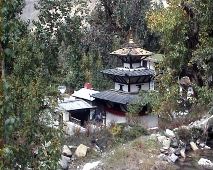 Nepali temple